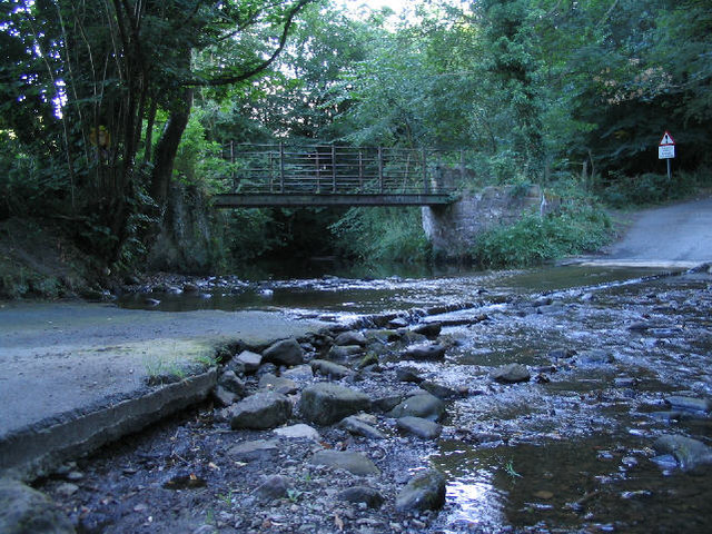 Ford every stream... Ford near Cymau, Flintshire.